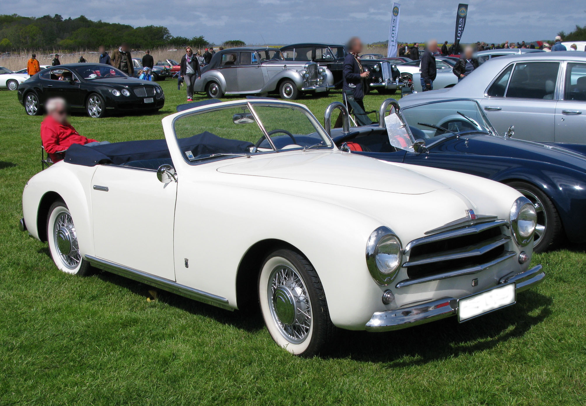 1952 Simca 8 Sport Event: Tjolöholm Classic Motor 2015